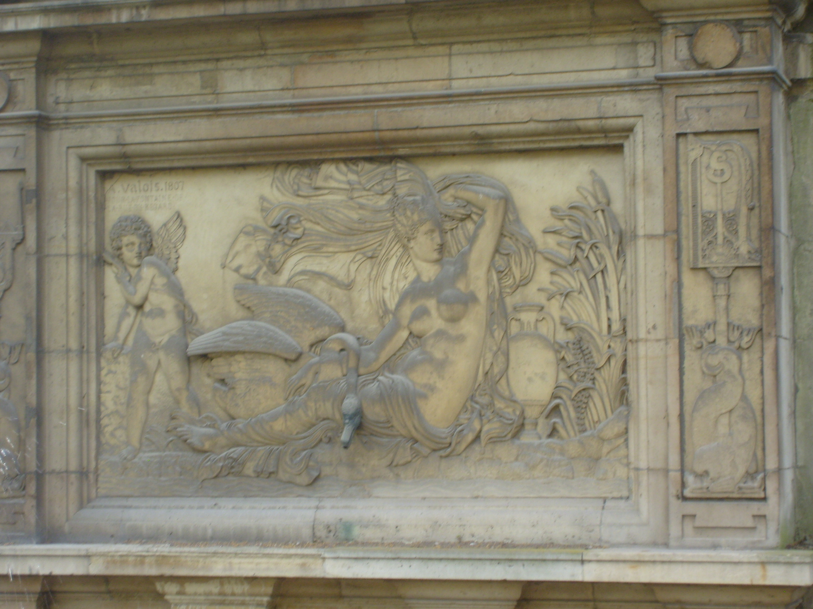 Fontaine de Leda (1807) behind Medici Fountain in Luxembourg Gardens Paris